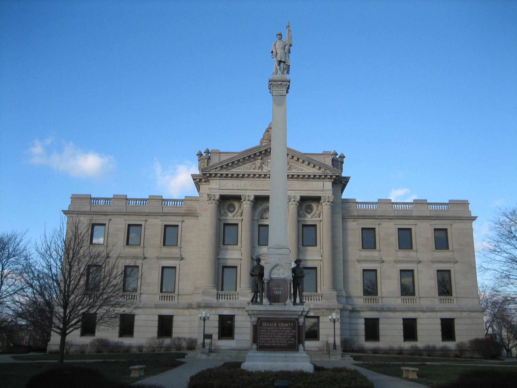 DeKalb County Courthouse, Sycamore, Illinois, Part of the Sycamore Historic District. National Register of Historic Places.